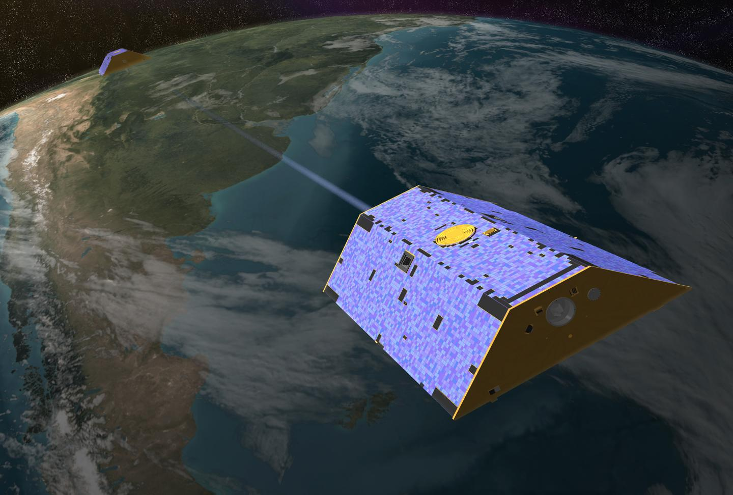 Artist's concept of Gravity Recovery and Climate Experiment